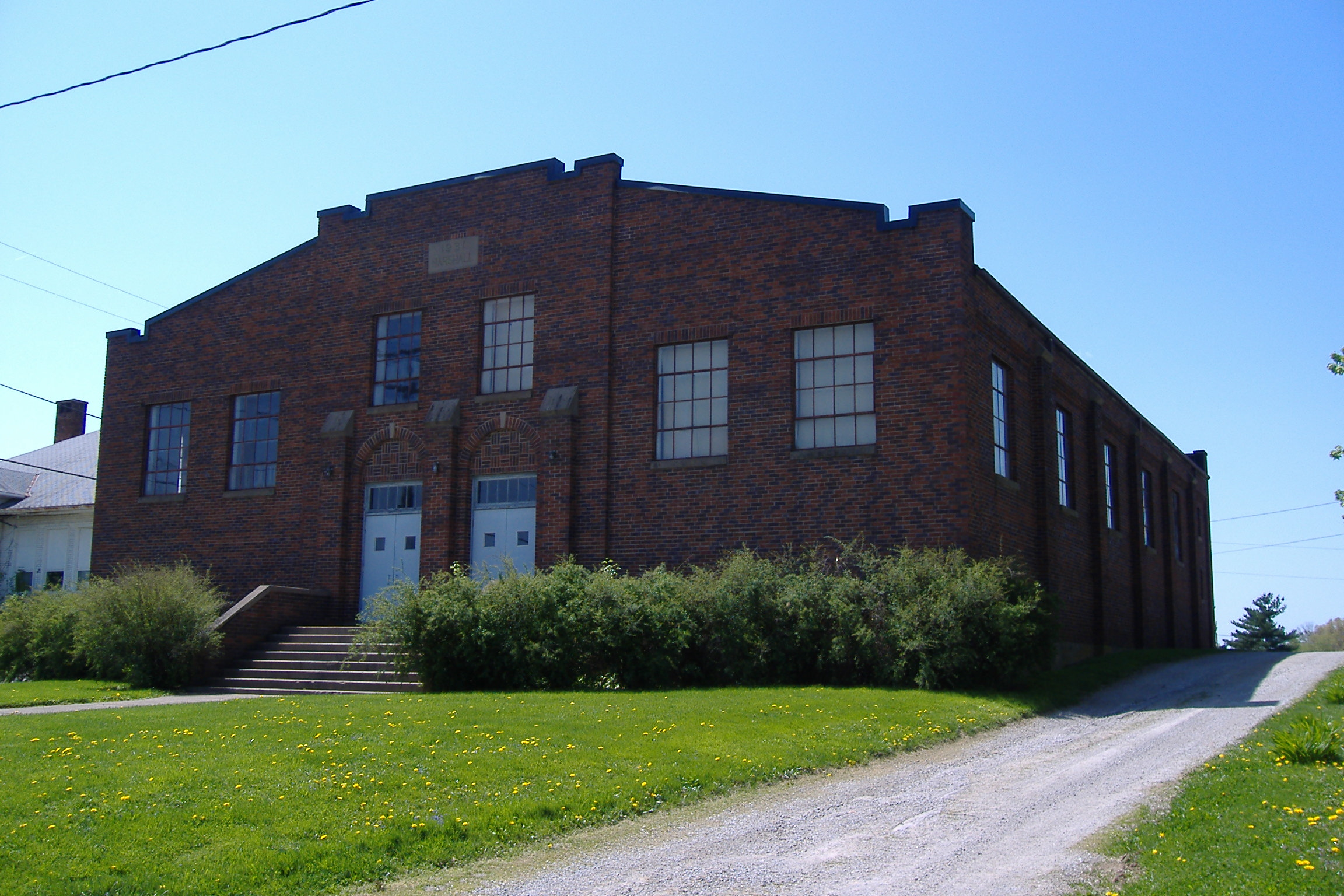 Marshall Community Center located in Marshall, Highland County, Ohio: built in 1931; formerly Marshall High School and Elementary School